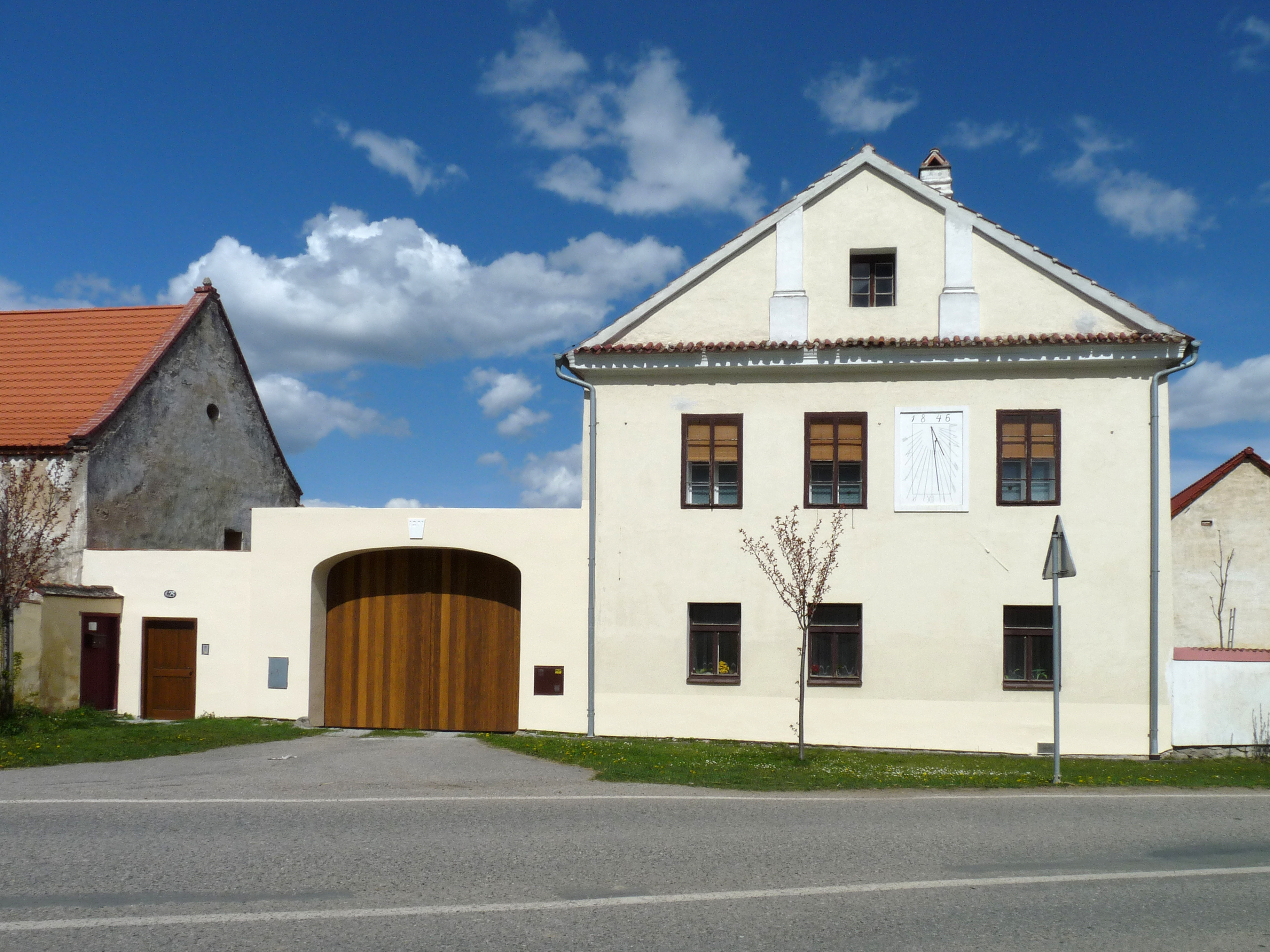 House No 23 in the village of Dubné, České Budějovice, Czech Republic.